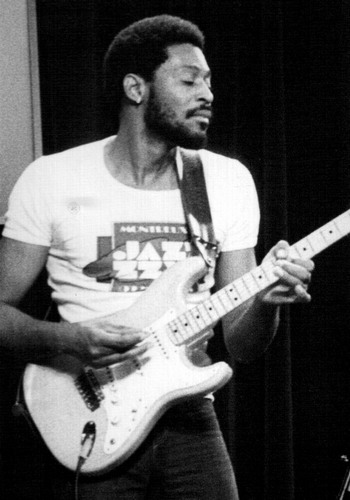 Guitarist Cash McCall in Montreux Jazz Festival, Switzerland